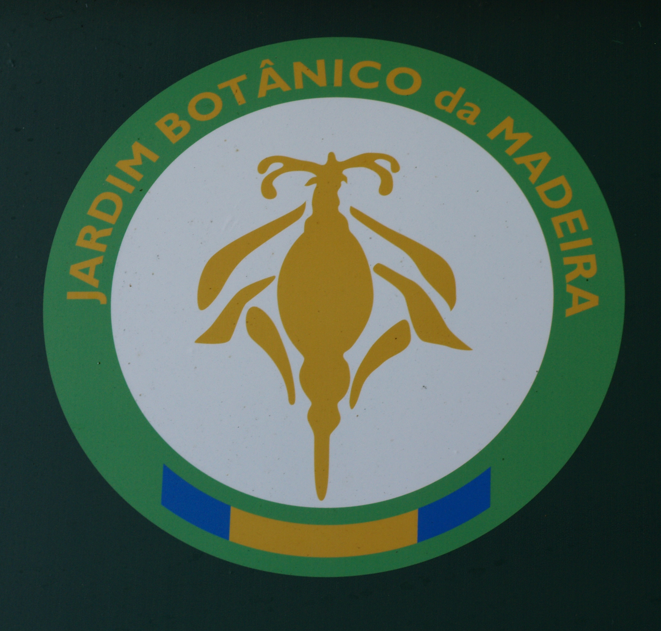 Logo of botanical garden - Jardim botanico da Madeira, Funchal, Madeira